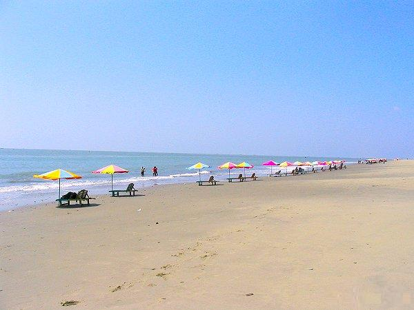 Cox's Bazar Beach, Bangladesh